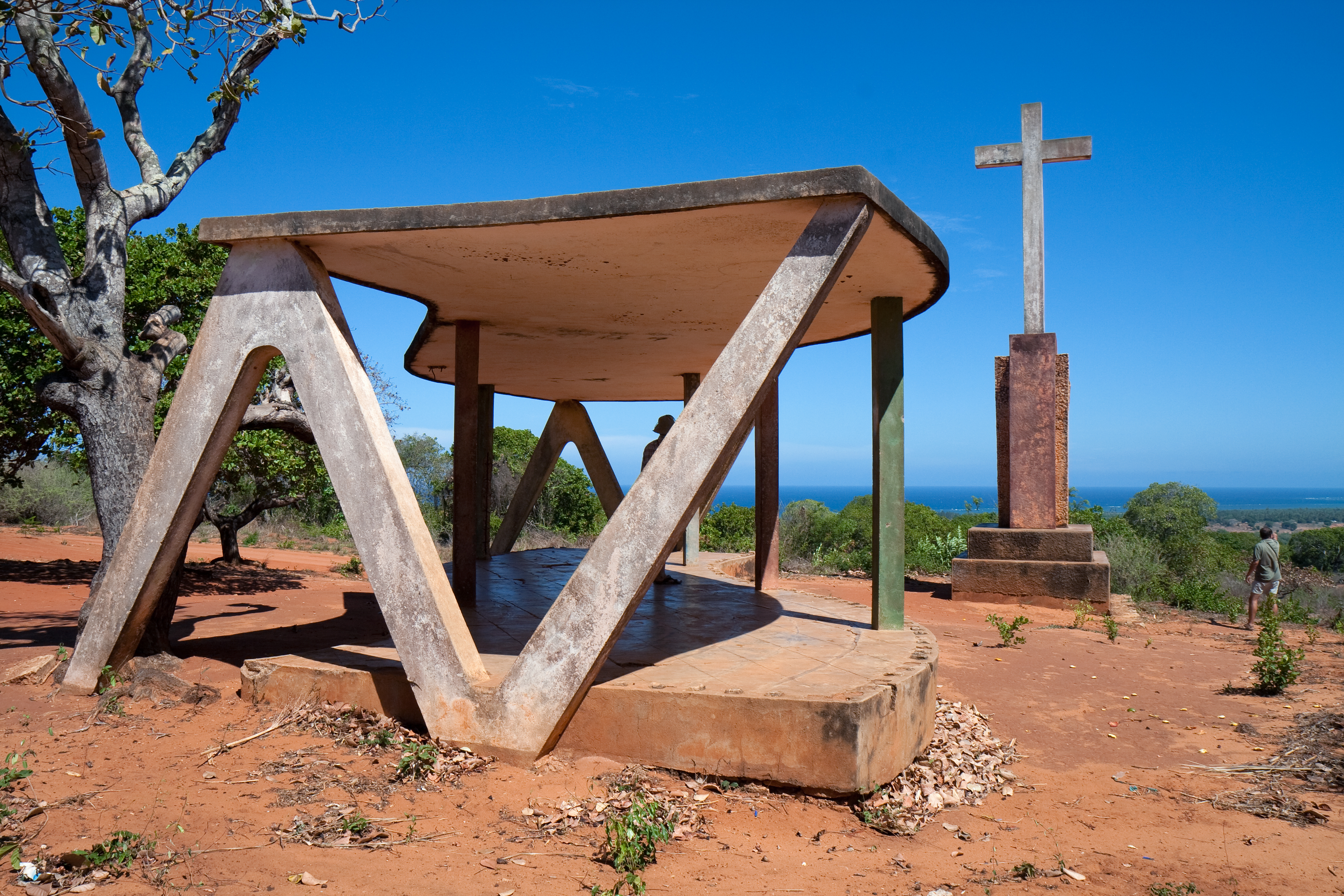 Cabo Delgado Province, south of Pemba.